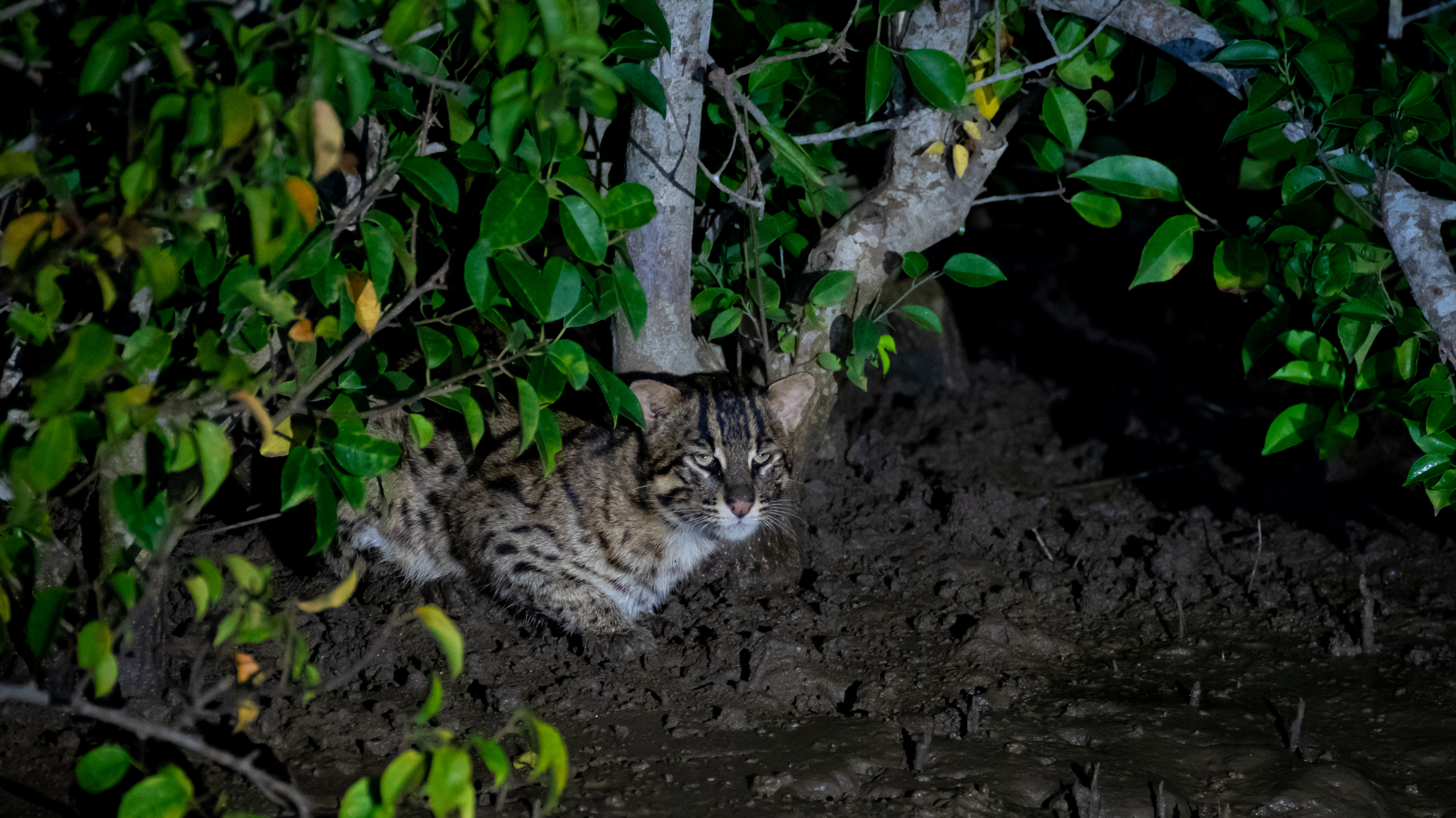 Fishing cat on a bank of a creek in Godavari river during low tide to catch fish